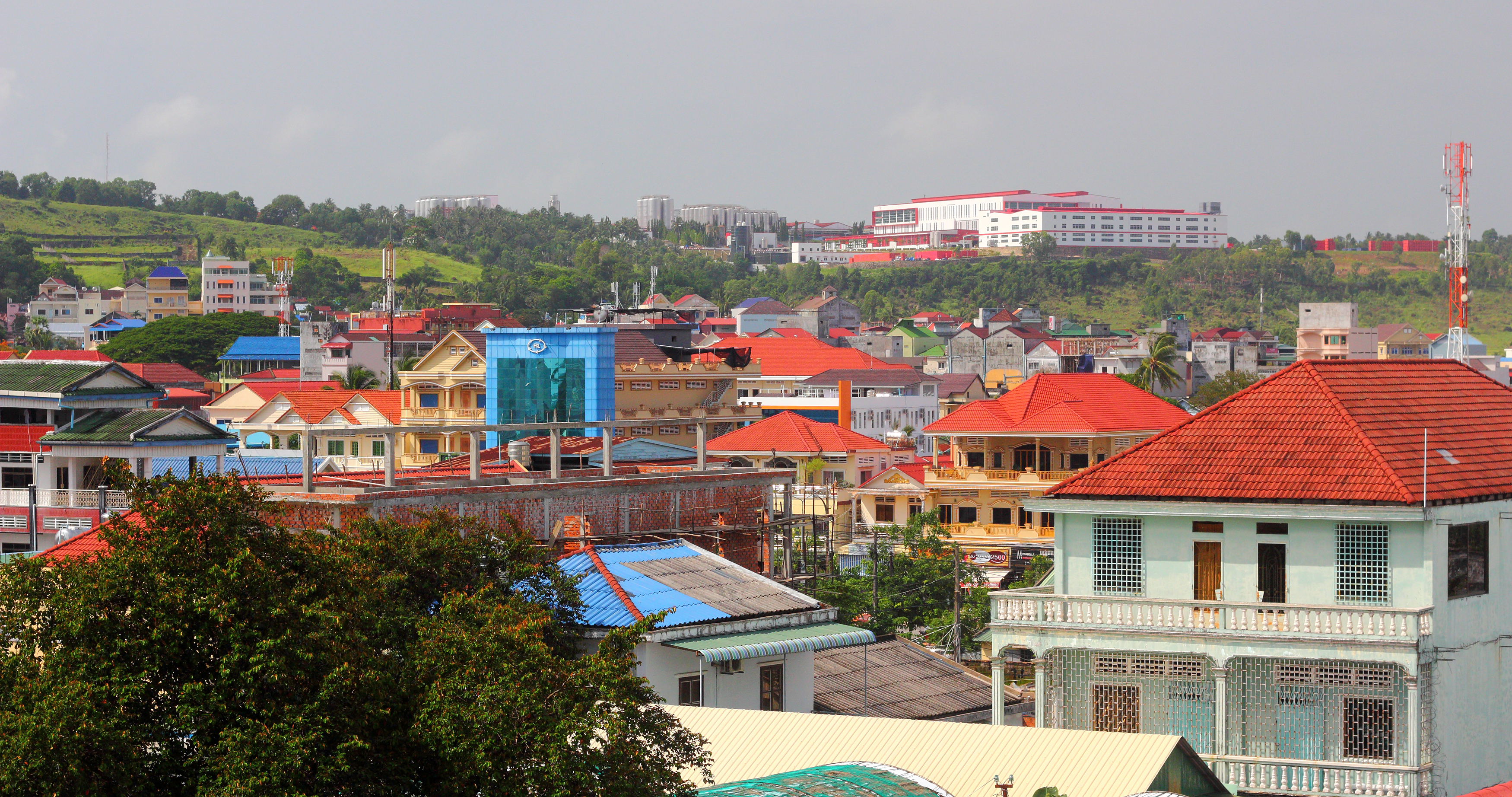 Cambodia - Sihanoukville, view of the city.